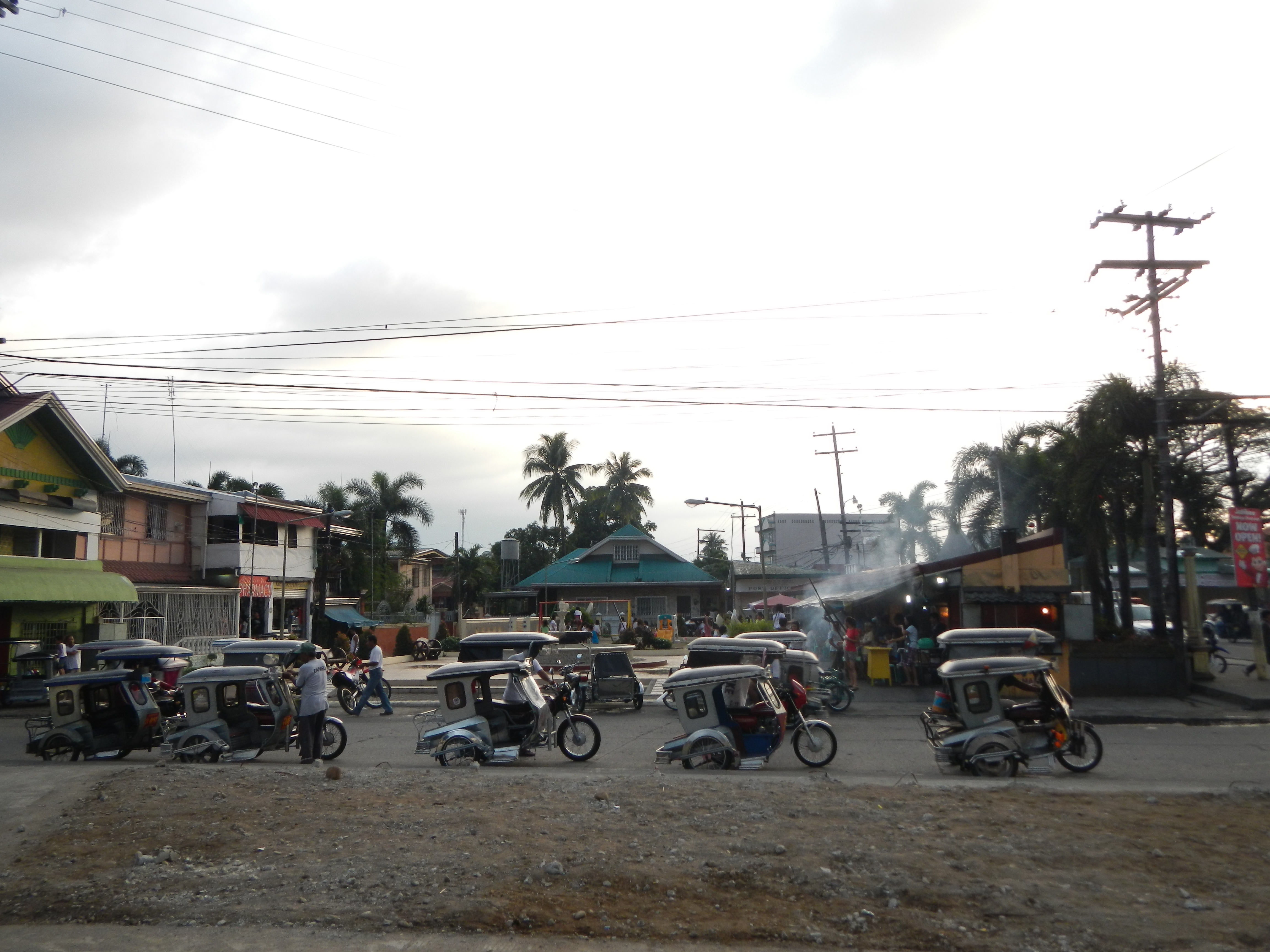 Abucay, Bataan[1][2][3]Coordinates: 14°43'34"N 120°28'10"E